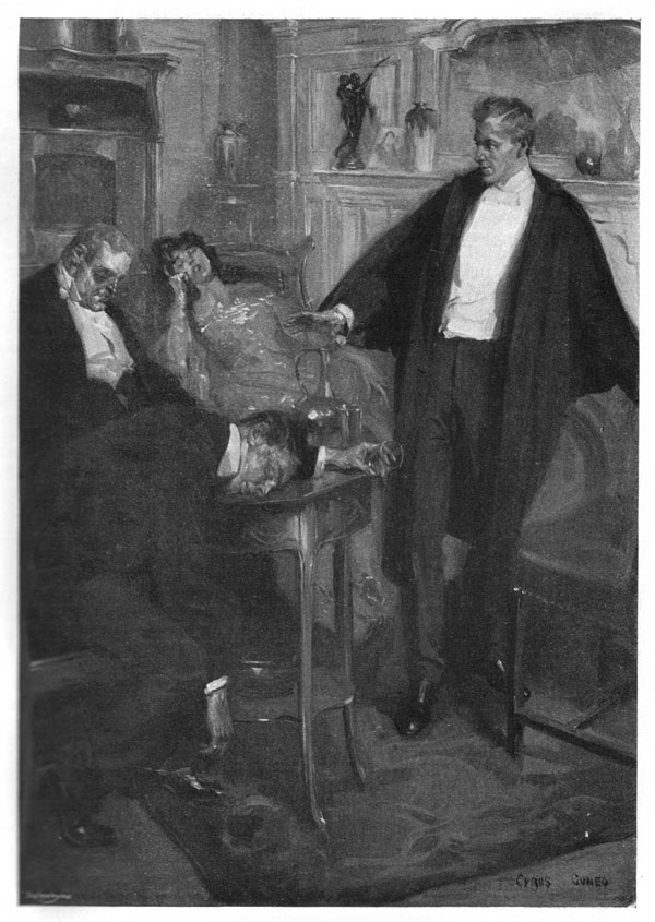 Pall Mall's illustration for E. W. Hornung's Raffles short story "A Trap to Catch a Cracksman" by Cyrus Cuneo. This story was first published in Pall Mall Magazine in the July 1905 issue.